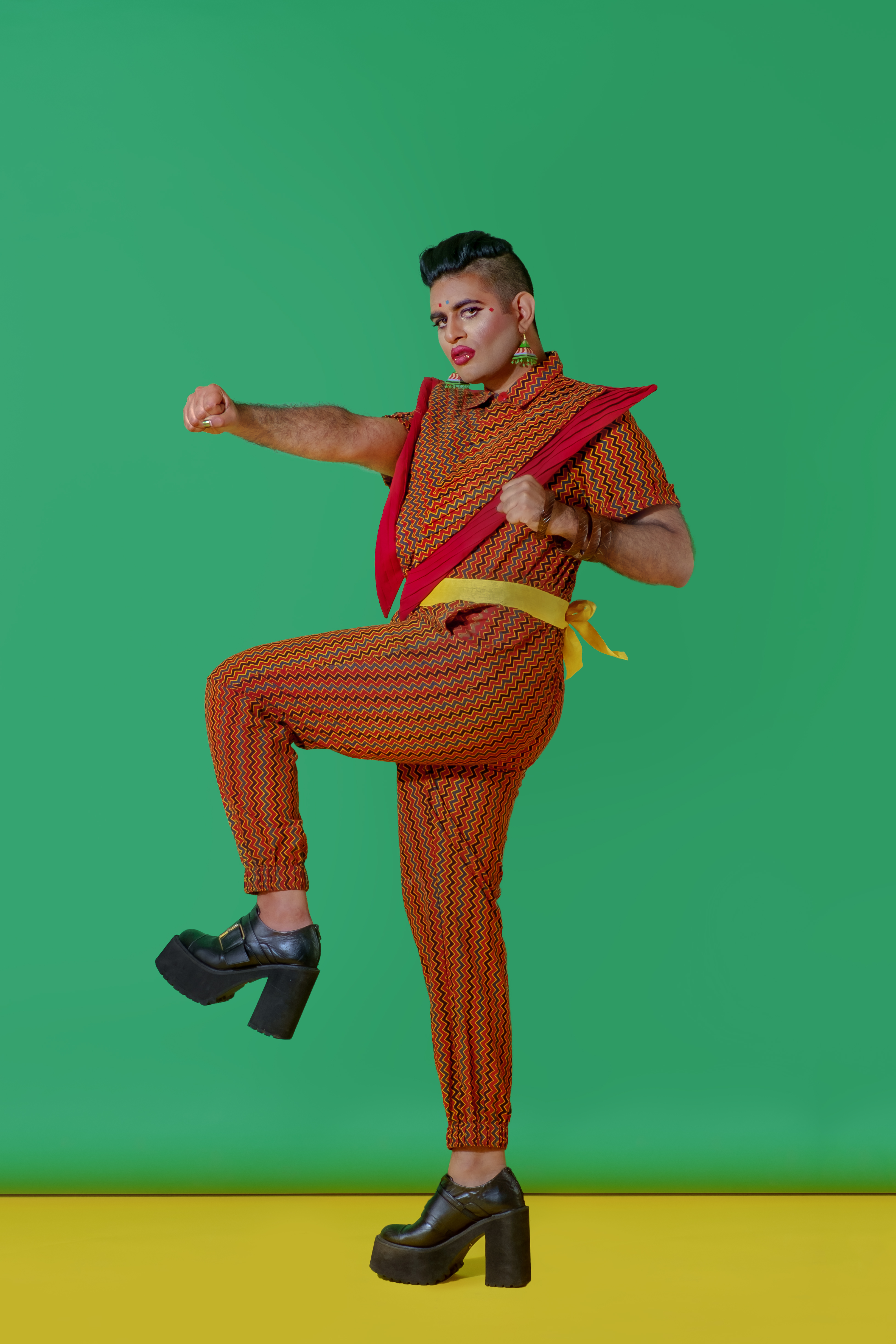 Transfemme Gender-nonconforming Performance artist Alok Vaid-Menon photographed by Abhinav Anguria